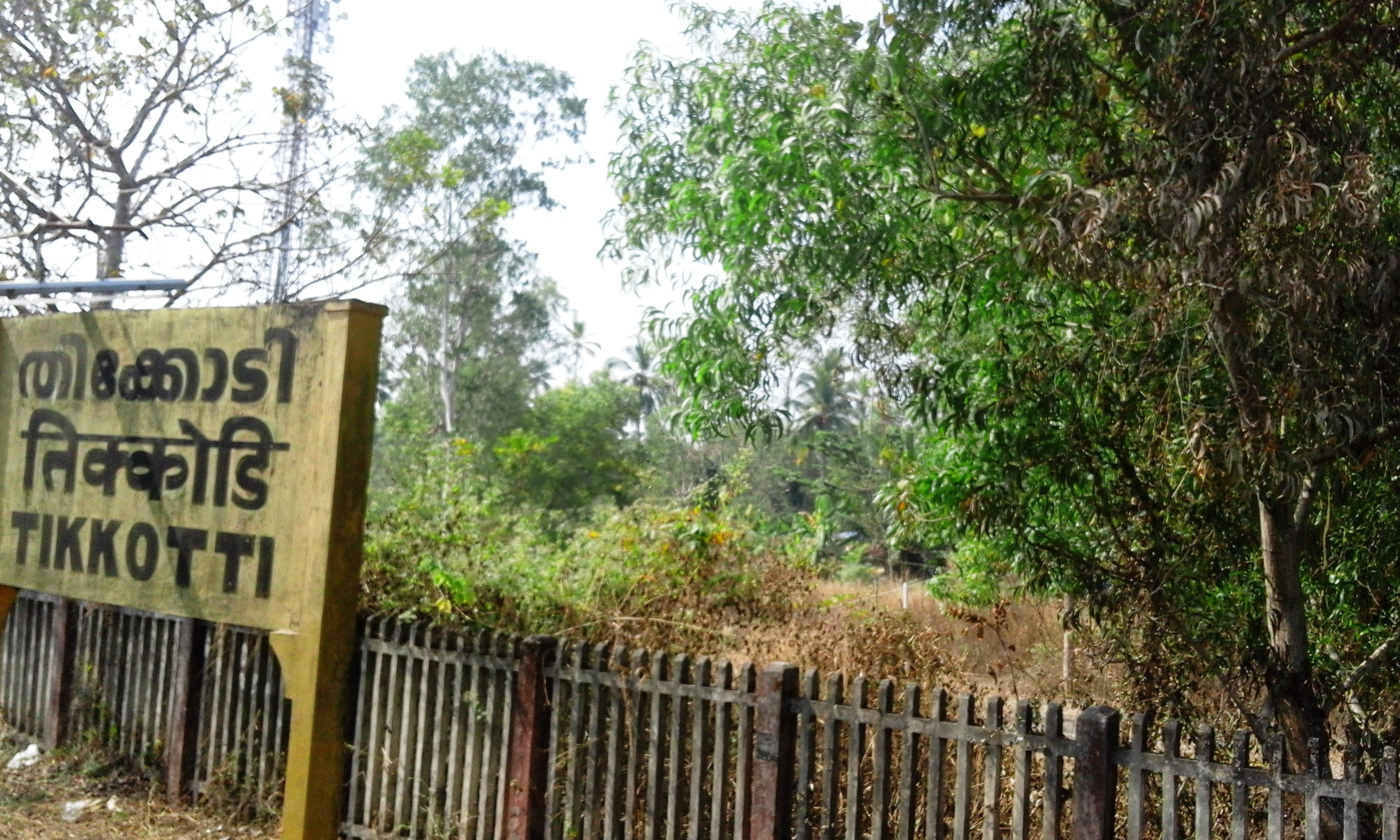 Kozhikode District, Kerala, India.